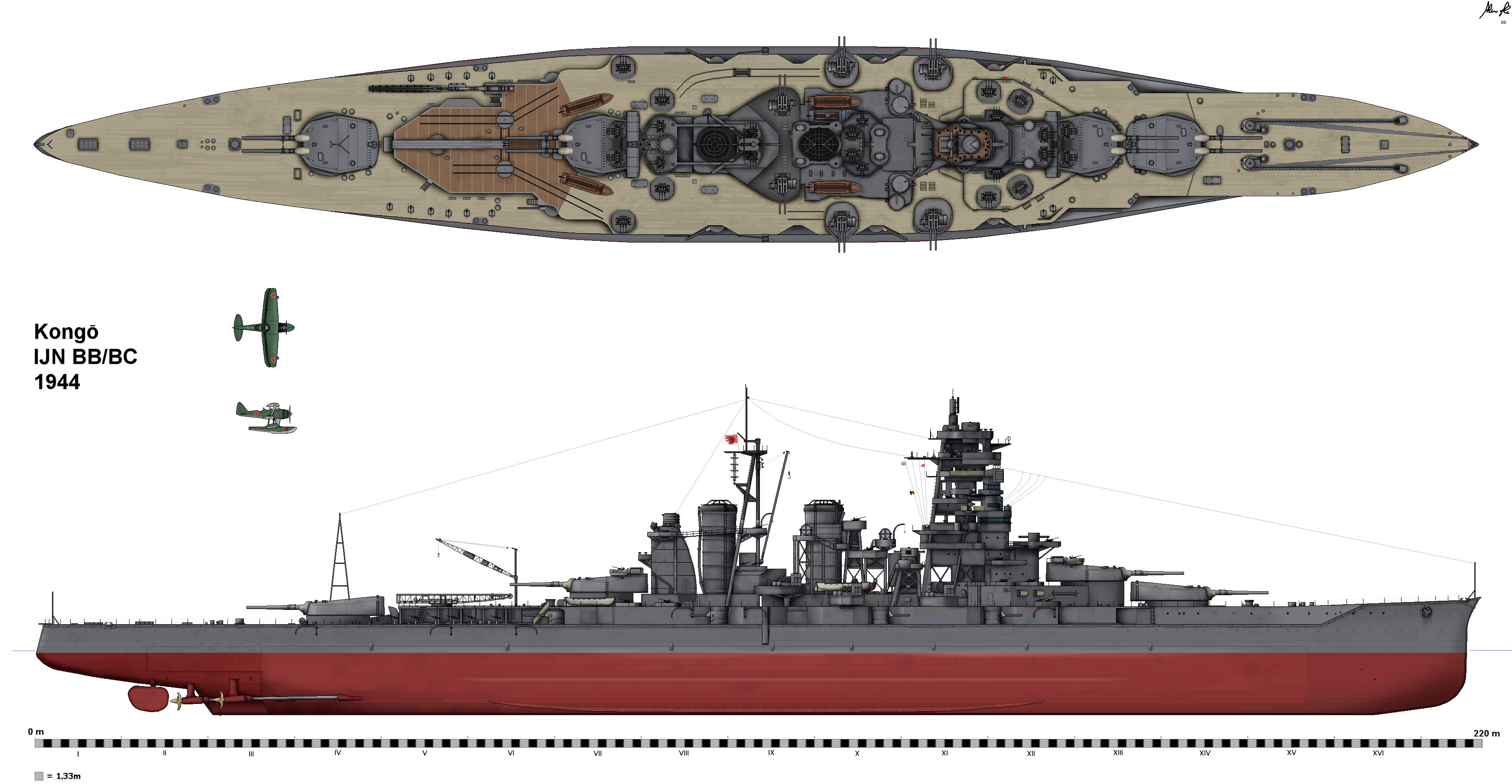 Drawing of IJN battleship Kongo in her 1944 configuration.